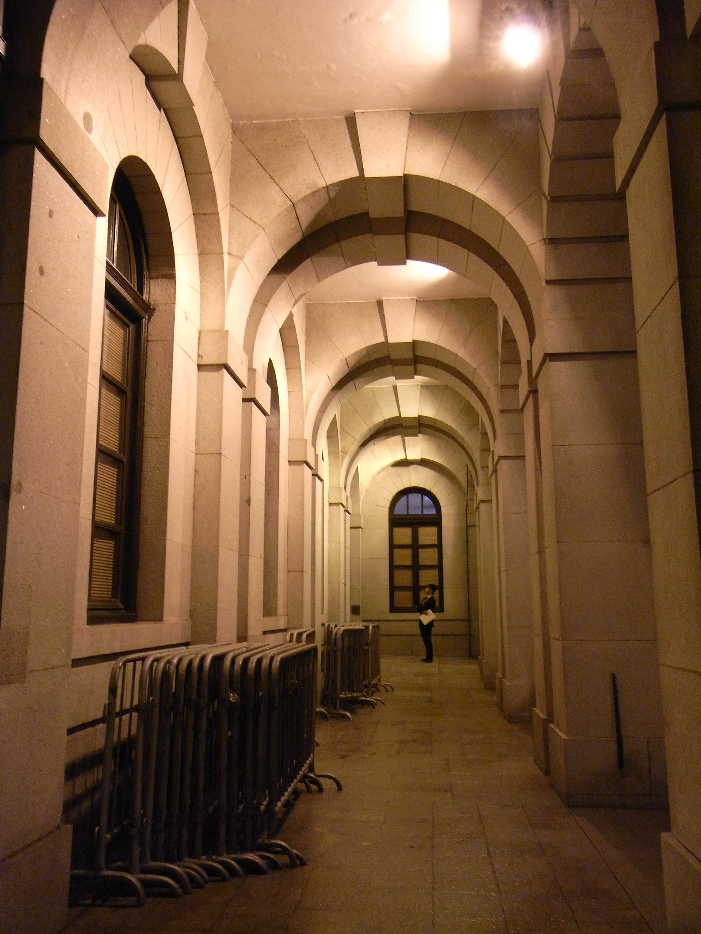 2010年2月zh:香港中環